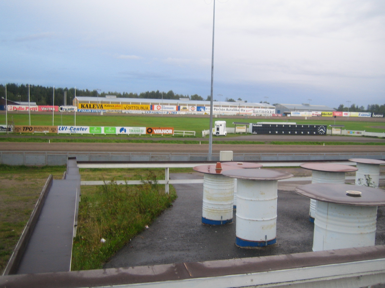 Äimärautio Racetrack in Oulu, Finland